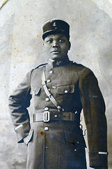 Georges Koudoukou (1894-1942), French officer, of the Free French forces, Compagnon de la Libération